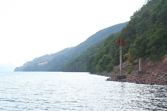 The start of John Cobb's measured mile. In 1952 John Cobb lost his life in a water speed record attempt on Loch Ness. This milepost represents the northern extremity of the measured mile.